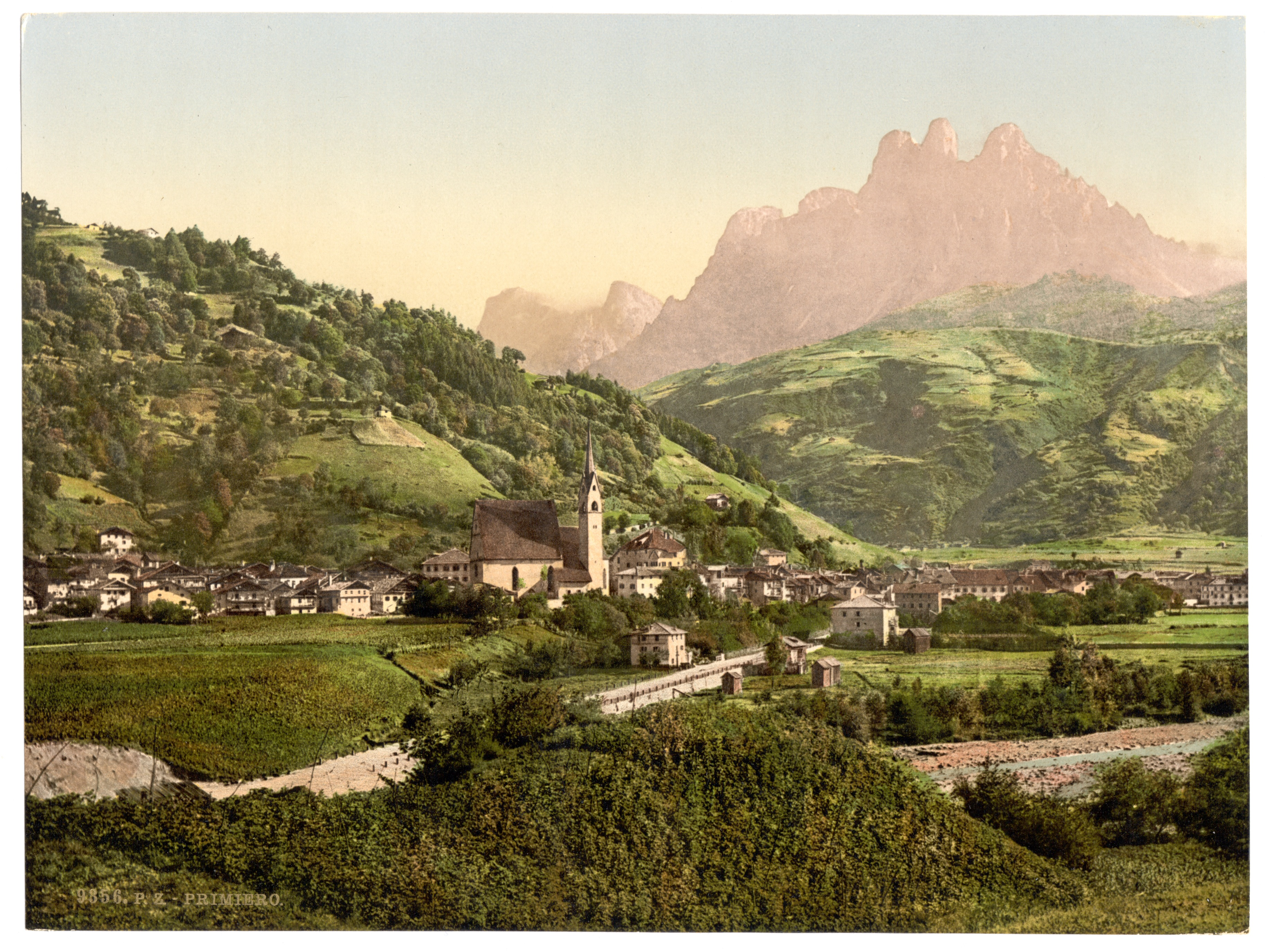 Print no. "9356".; Title from the Detroit Publishing Co., Catalogue J-foreign section, Detroit, Mich. : Detroit Publishing Company, 1905.; Forms part of: Views of the Austro-Hungarian Empire in the Photochrom print collection.